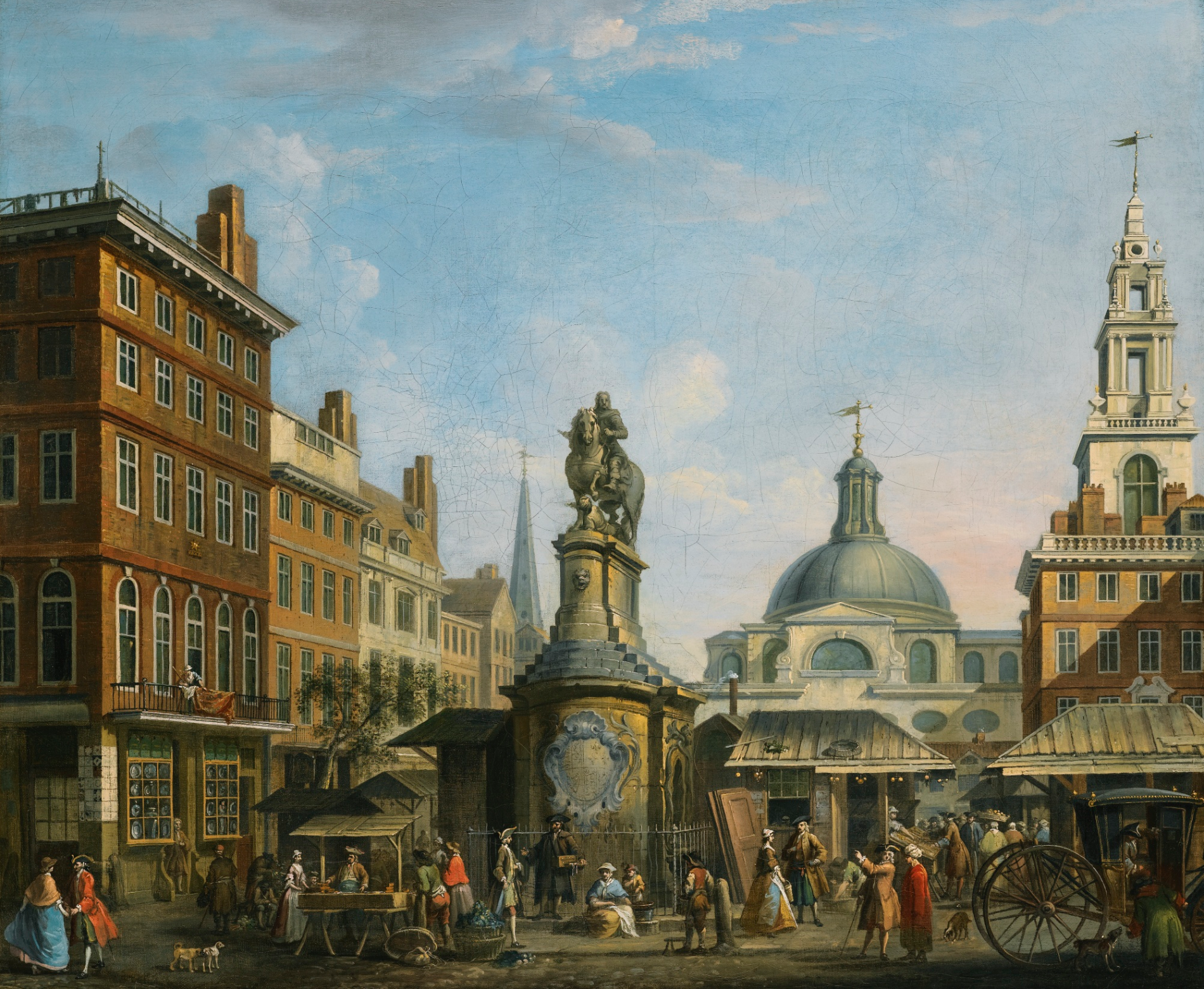 Oil painting of the Stocks Market in central London. The statue at the centre is of King Charles II mounted on a horse trampling Oliver Cromwell. The dome and tower to the rear right are the Church St Stephen Walbrook. An engraving of this picture by Henry Fletcher was published in 1738. The market was dismantled in 1737 for the building of the Mansion House on the same site.